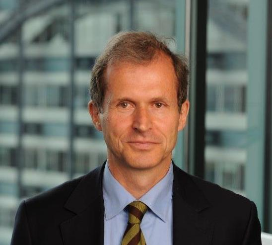 Official portrait of EBRD Chief Economist Erik Berglöf